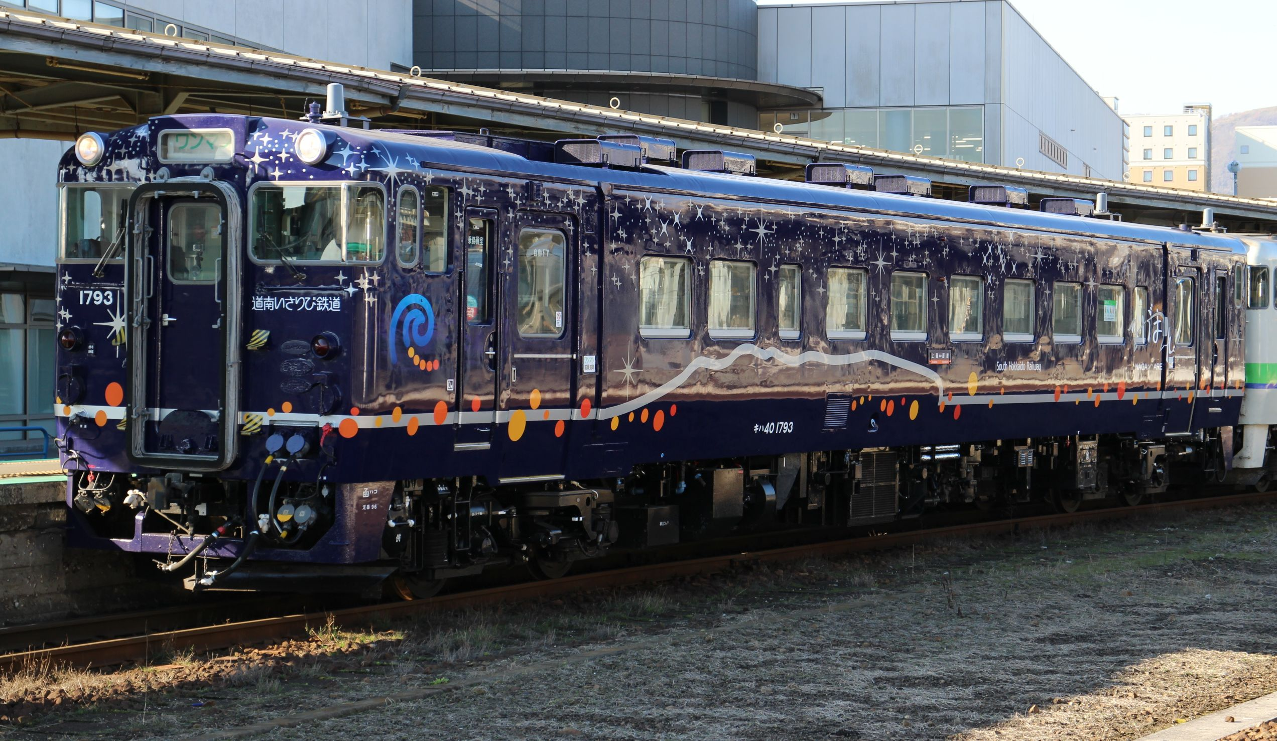 South Hokkaido Railway Kiha 40 series DMU car KiHa 40-1793 on a Nagamare service at Hakodate Station